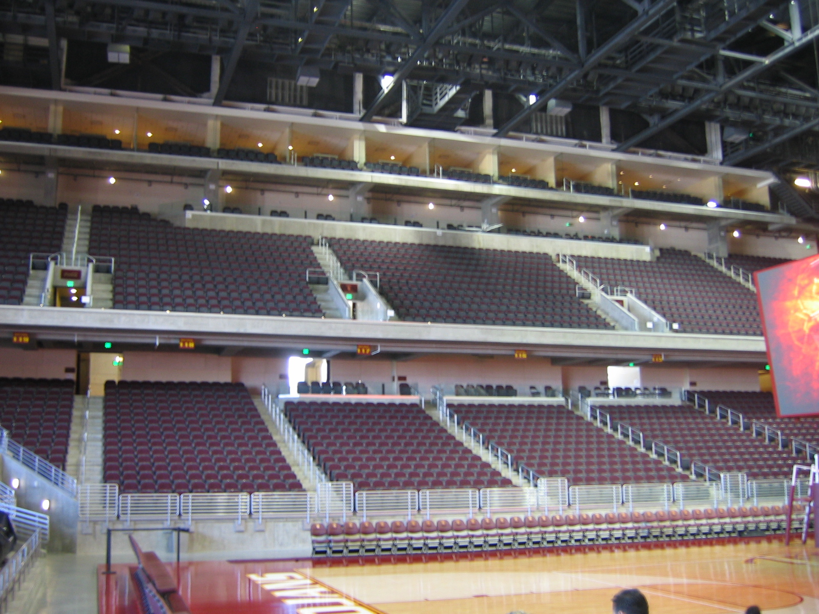 Football & Basketball Facilities USC Arena